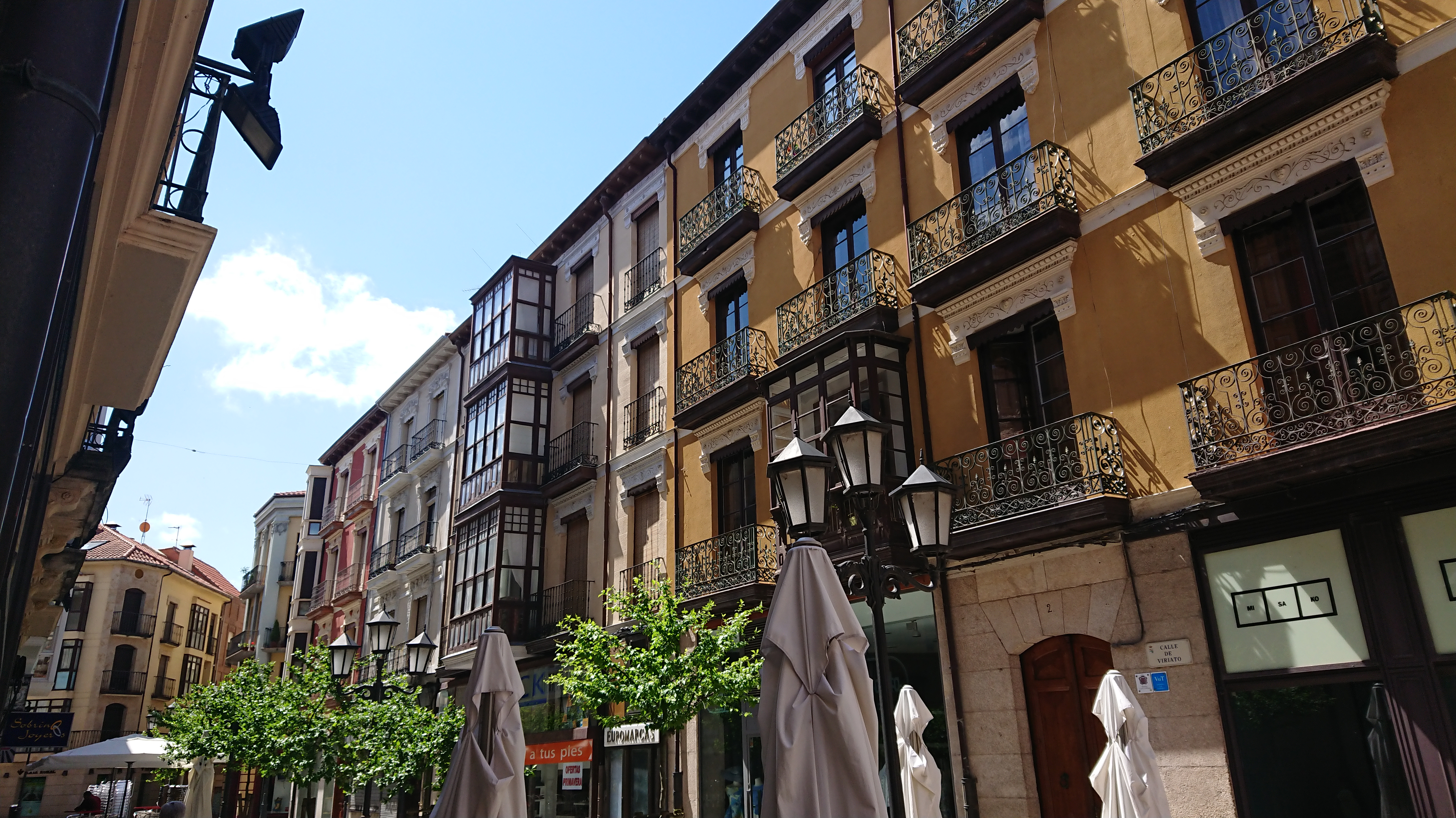 Viriato street, Zamora (Spain)